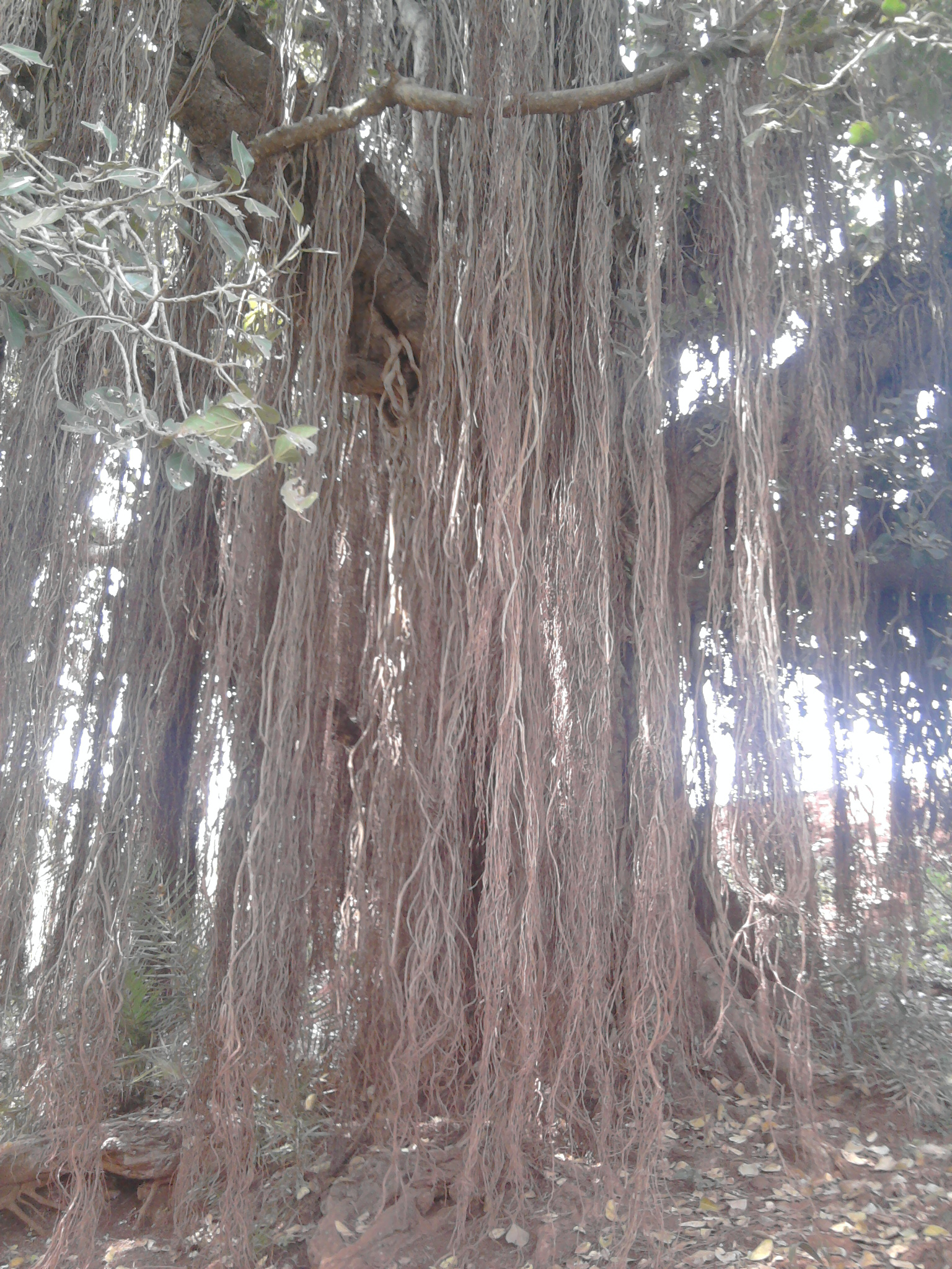 Aerial root